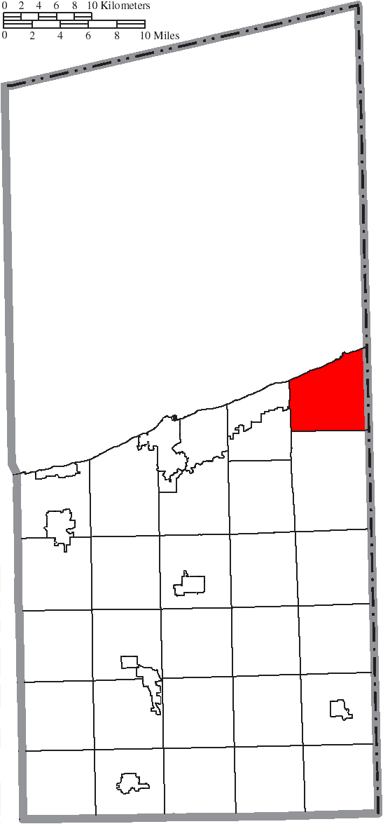 Map of the municipal and township boundaries of Ashtabula County, Ohio, United States, as of the 2000 census, with the location of the city of Conneaut highlighted. Township borders are shown only in unincorporated areas in order to differentiate incorporated and unincorporated areas more clearly.